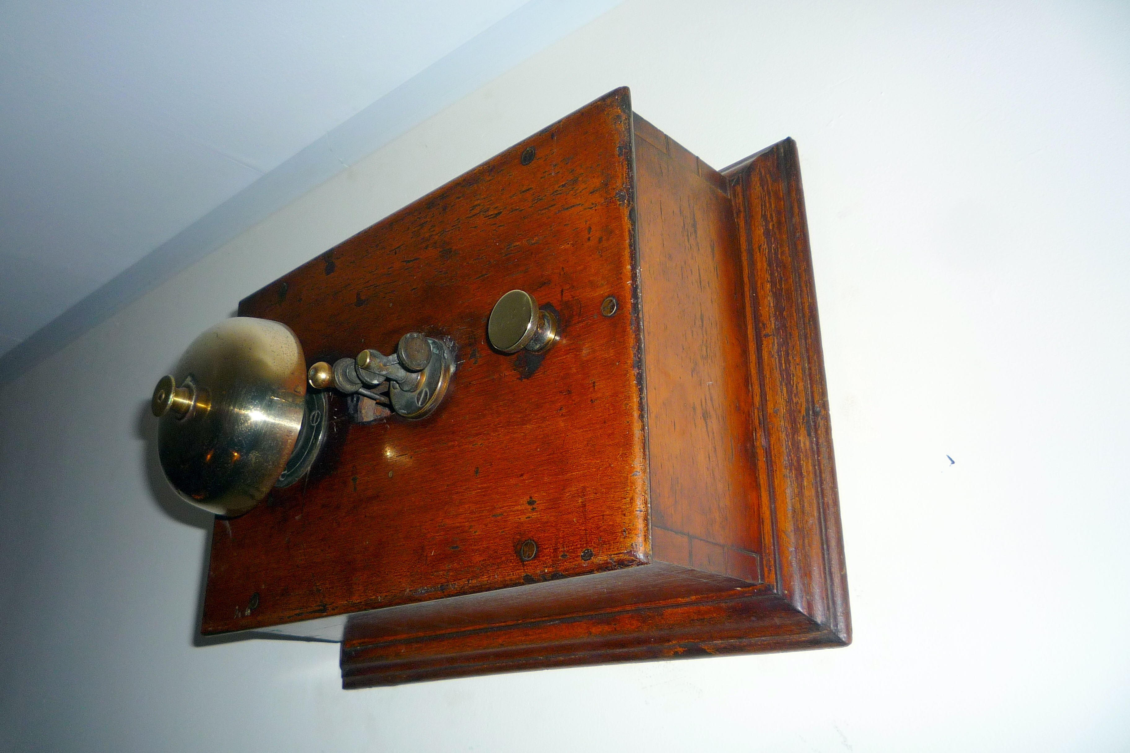 A Tyer's single stroke block bell. Used in conjunction with a Tyer's No. 6 Tablet Instrument.